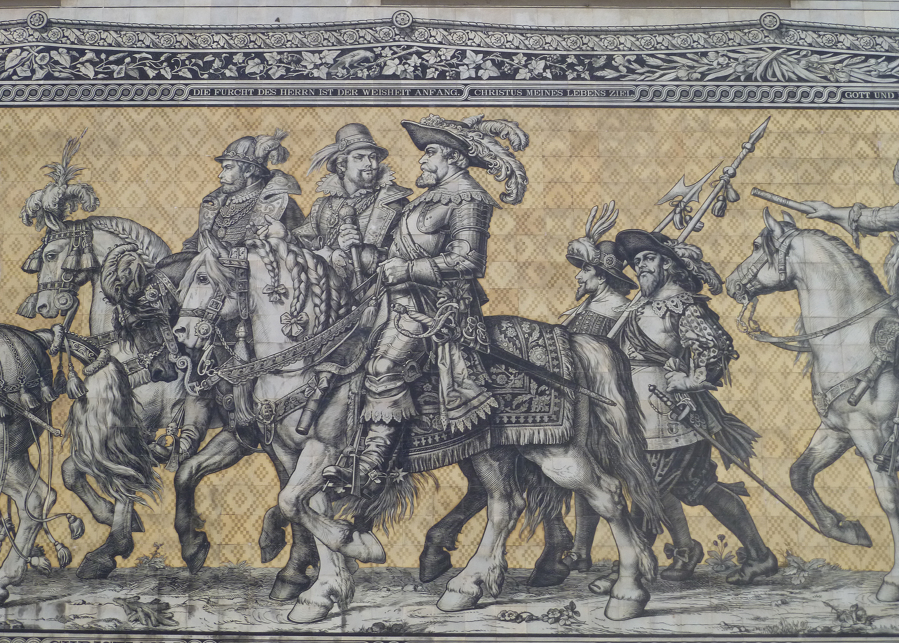 Christian I, Elector of Saxony (1586–1591), Christian II, Elector of Saxony (1591–1611) and John George I, Elector of Saxony (1611–1656); Fürstenzug, Dresden, Germany